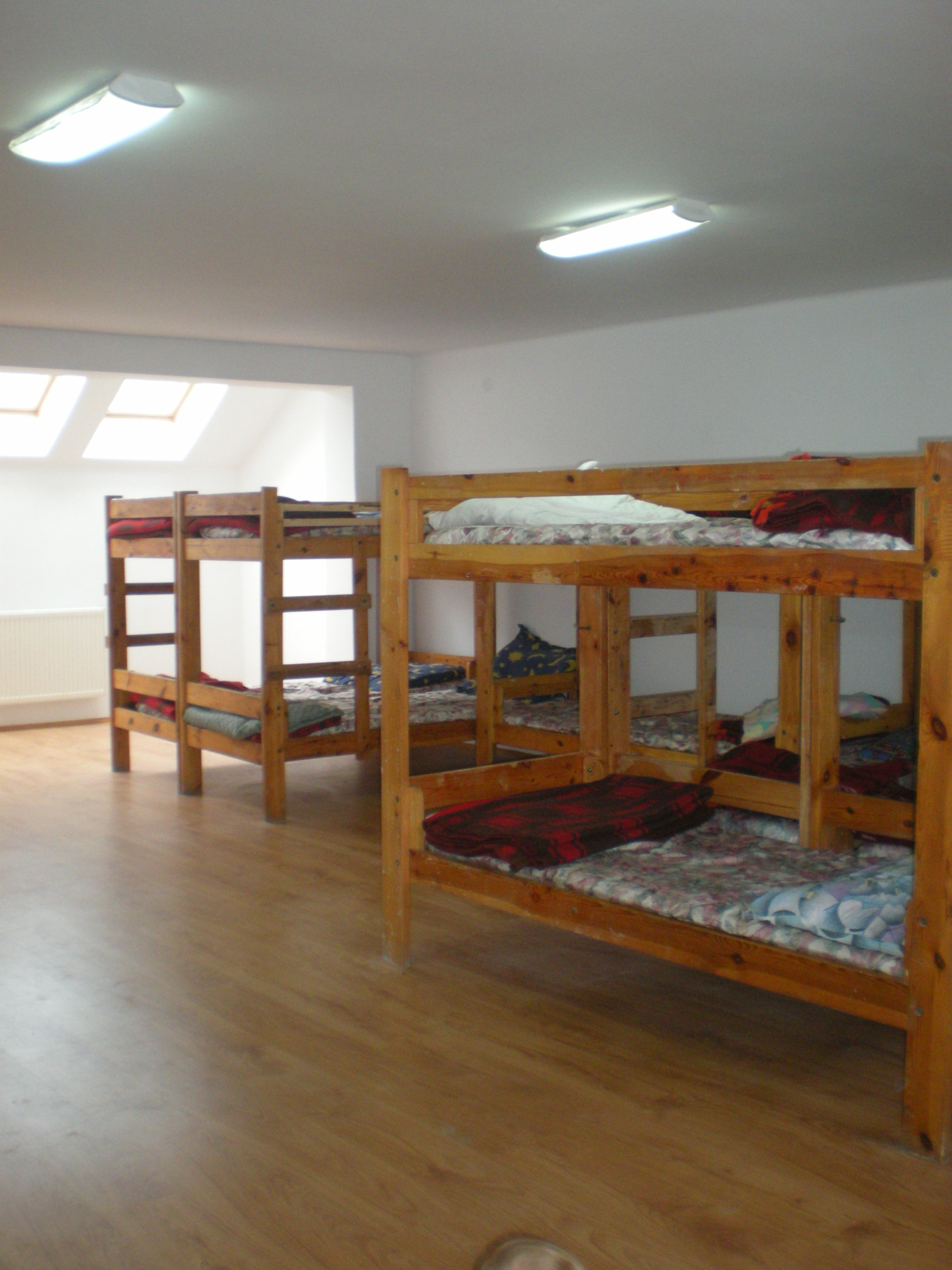 Szkolne Schronisko Młodzieżowe w Górzance